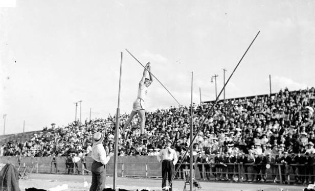 American athlete Charles Dvorak during the pole vault competition at the 1904 Olympic Games.